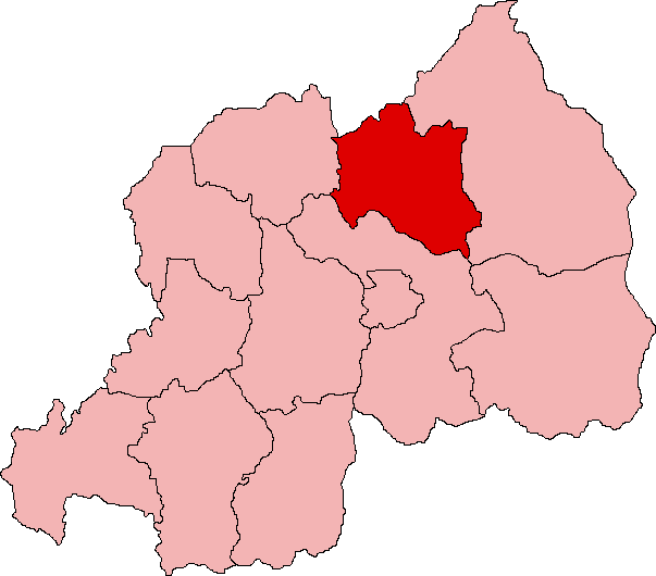 Byumba Province Adapted from File:Rwanda Butare.png which was made by User:Acntx.